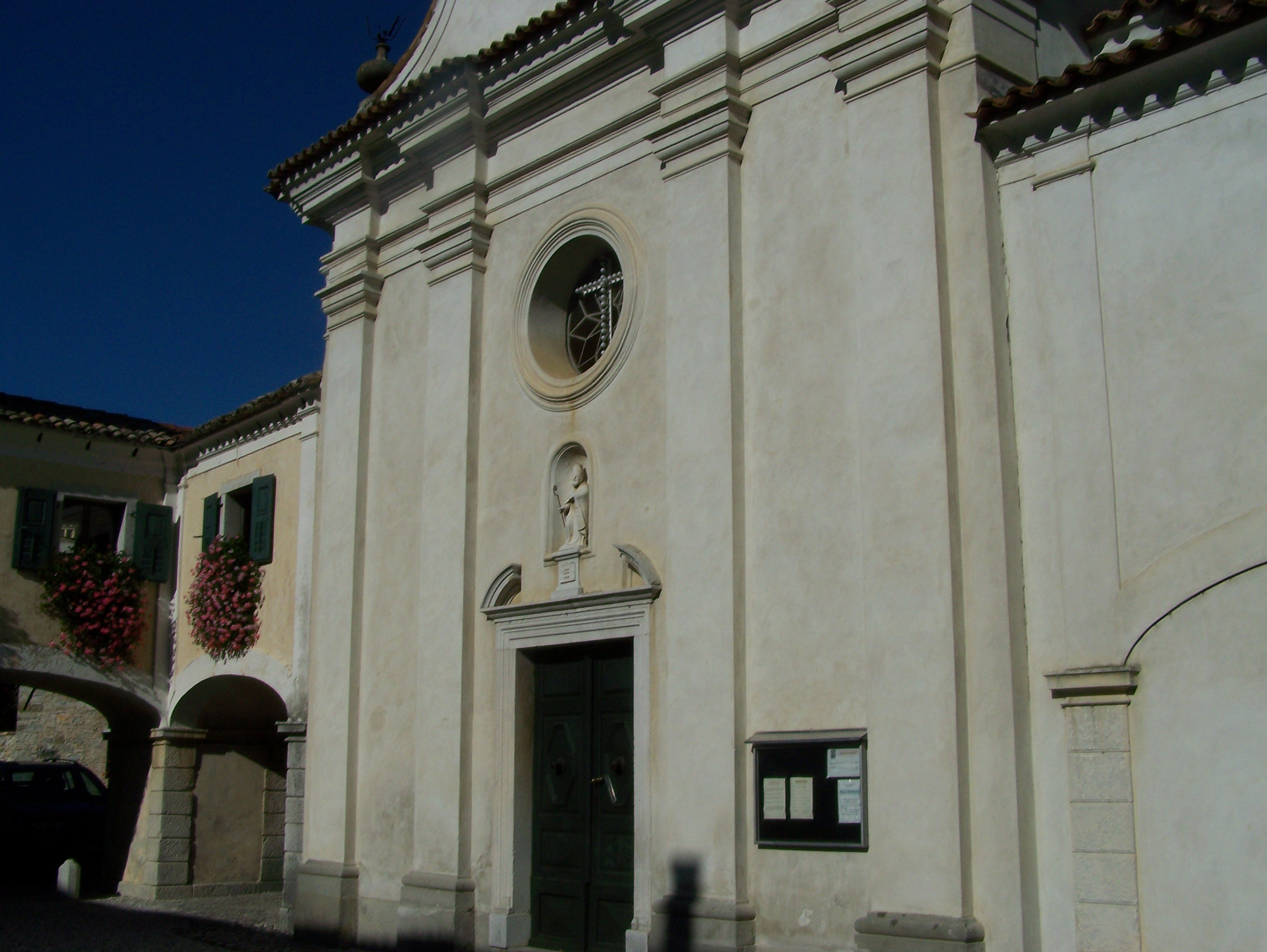 The church of San Nicola, in Strassoldo, Friuli, Nort-East Italy